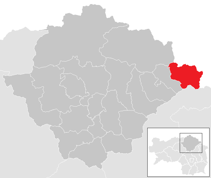 district Bruck-Mürzzuschlag